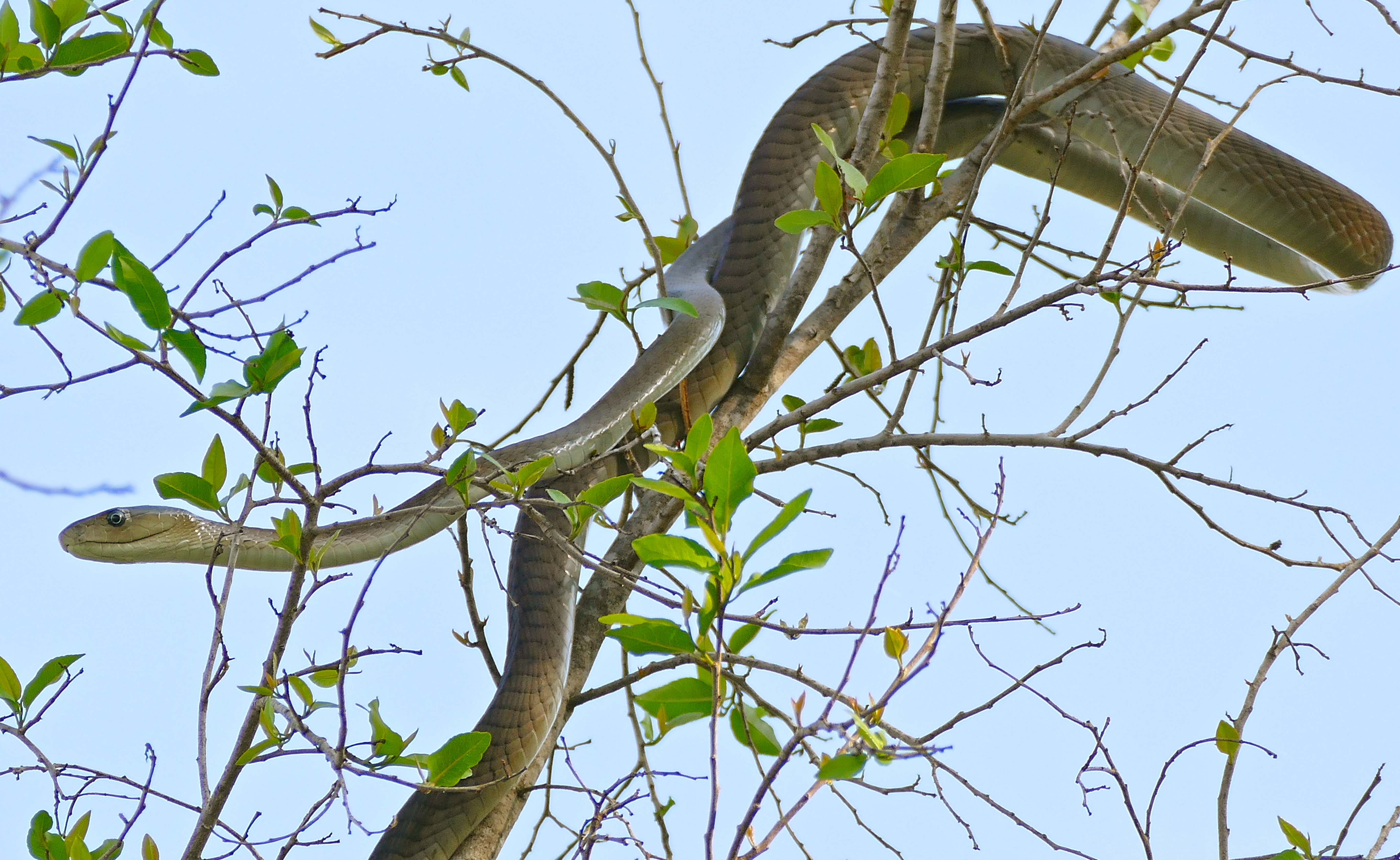 H4-1 Road North of Lower Sabie, Kruger NP, Mpumalanga, South Africa